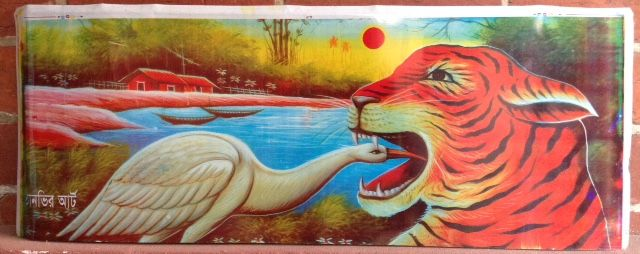 Rickshaw art from Bangladesh. Photographic reproduction on tin of the tale of the tiger and the egret or crane.